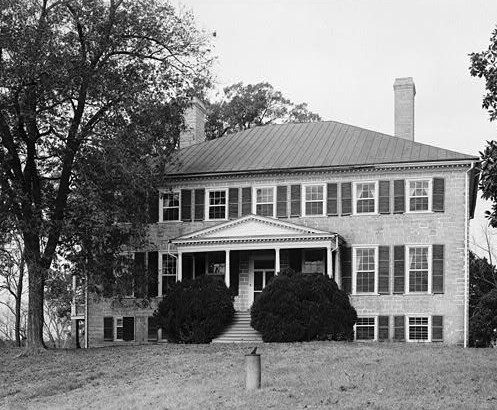 Prestwould Plantation (Mecklenburg County, Virginia) (cropped)